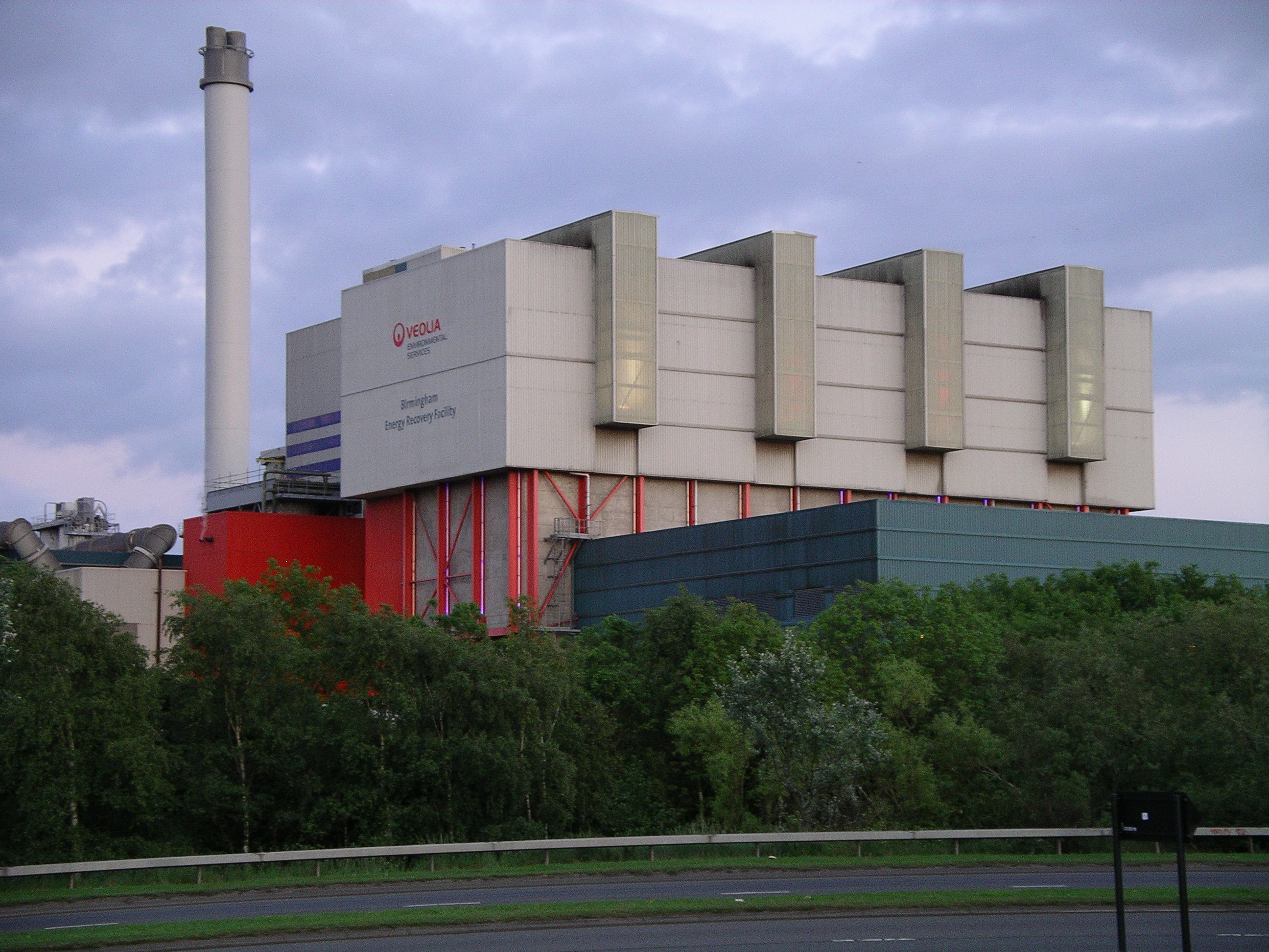 photo of the Birmingham Energy Recovery facility, Birmingham, England. Veolia ES Birmingham Limited, James Road, Tyseley, Birmingham, B11 2BA Tel: 0121 680 2000